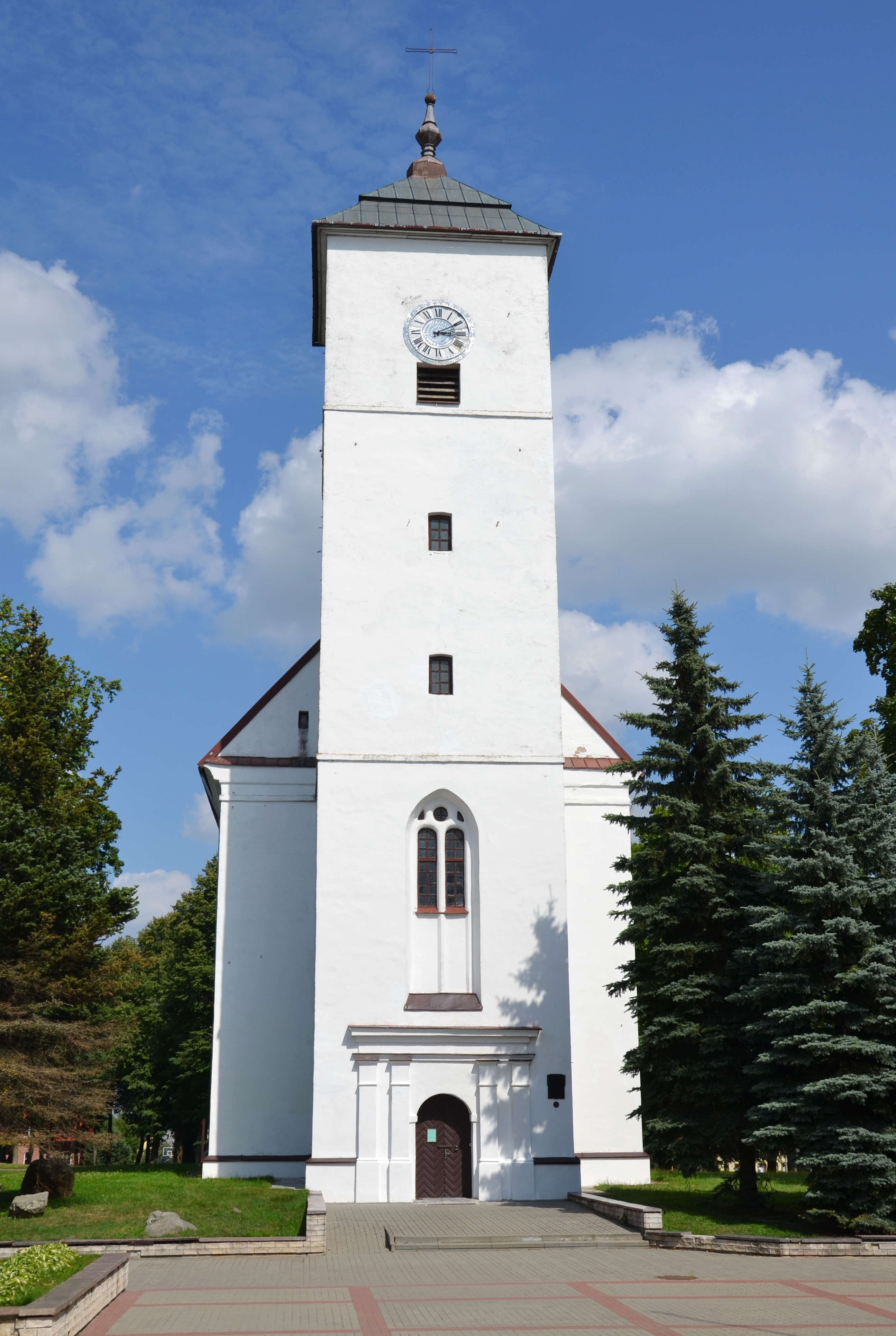 Kelme Evangelical Lutheran Church, Kelme town, Lithuania